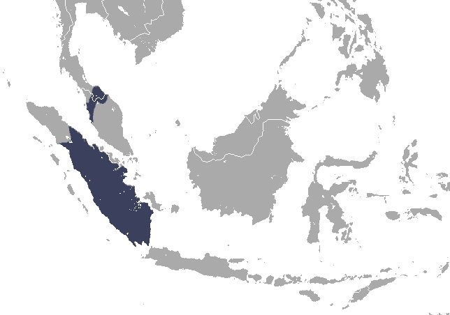 Agile Gibbon (Hylobates agilis) range (excluding Bornean White-bearded Gibbon (Hylobates agilis albibarbis) range)